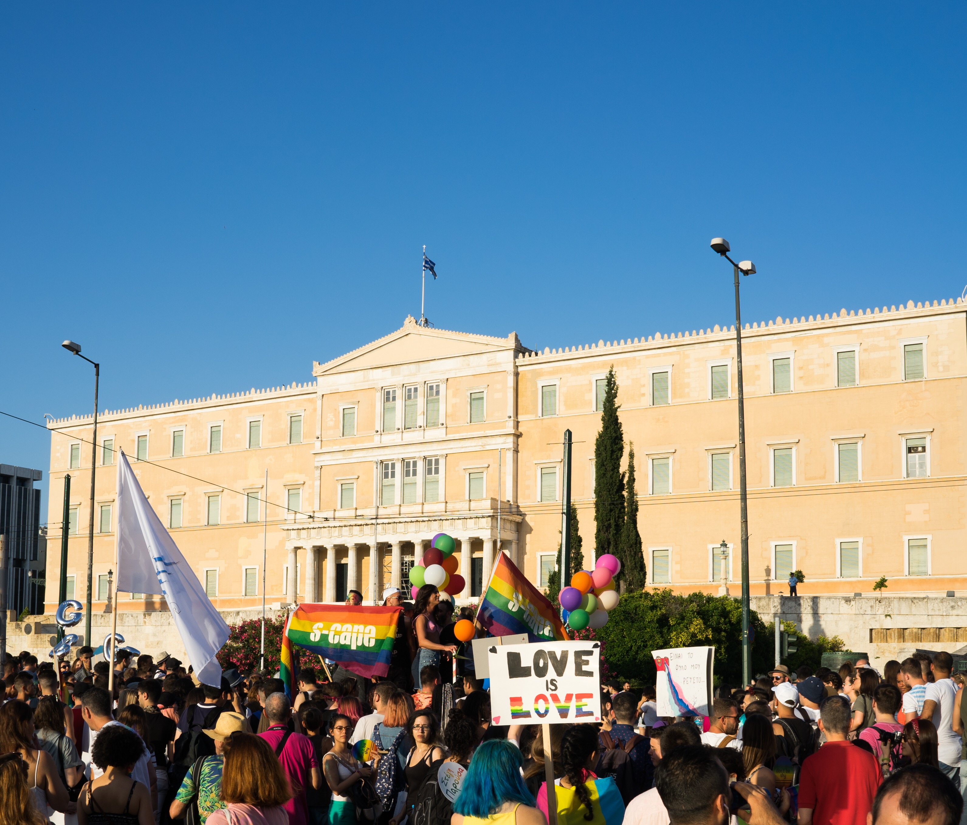 Location: Greece AthensEvent type: Athens Pride 2018Date or year: 2018